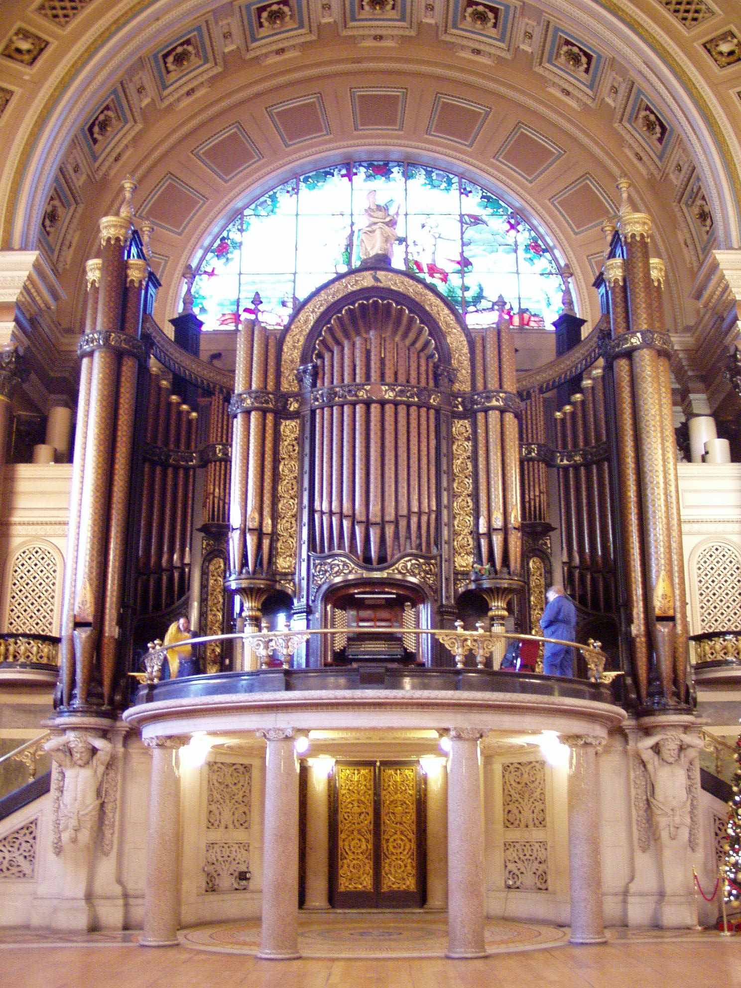 St Georges Hall, Liverpool interior